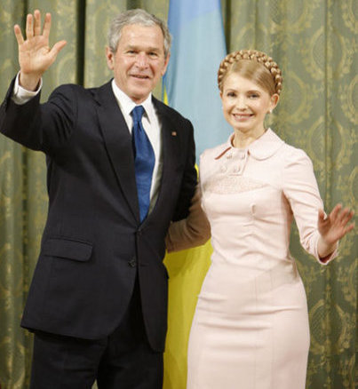 President George W. Bush and Ukraine Prime Minister Yuliya Tymoshenko wave to the media following their meeting Tuesday, April 1, 2008, at Kyiv's Club of Cabinet Ministers.